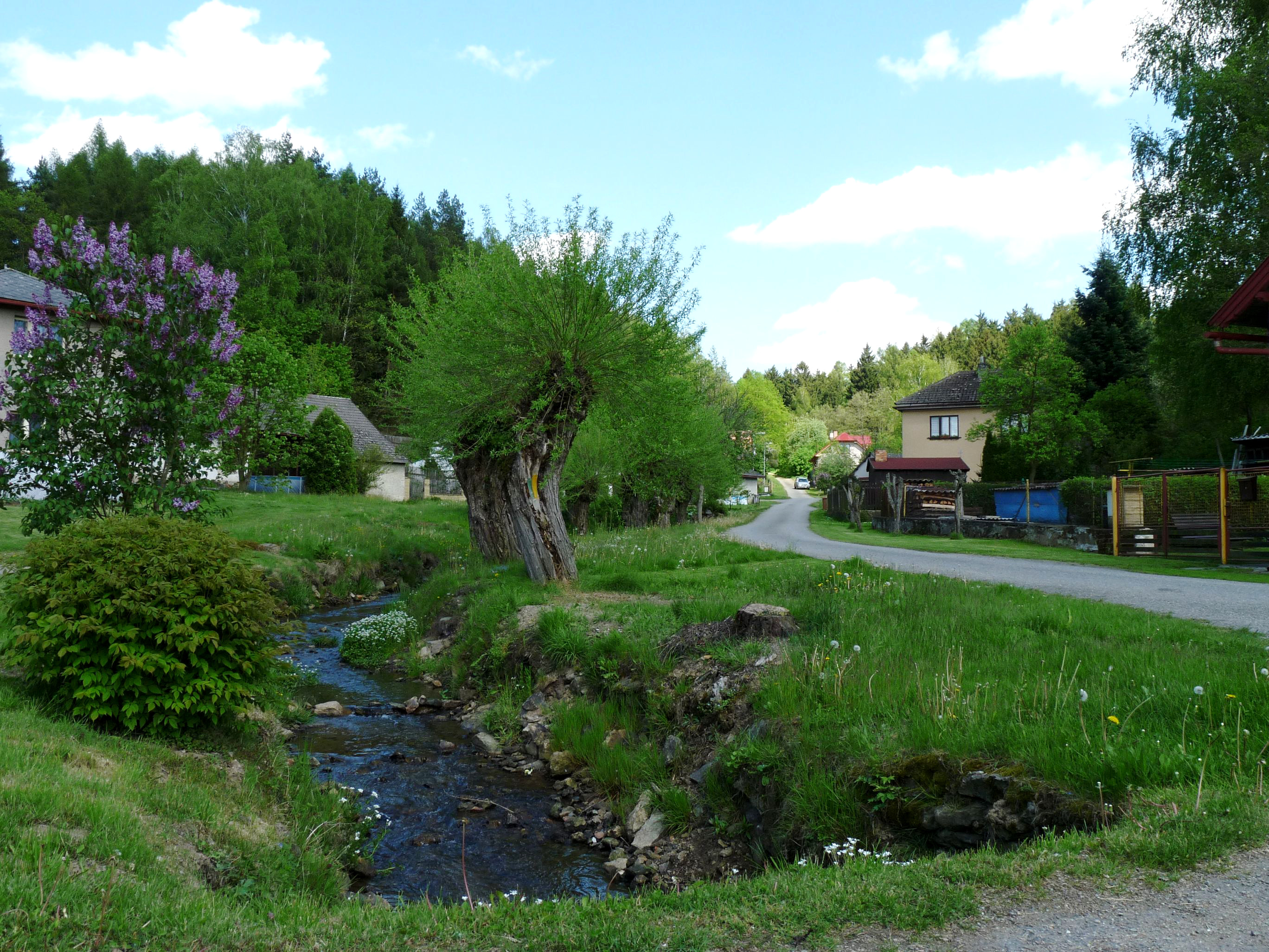 Simtanský Stream in the village of Simtany, Havlíčkův Brod District, Vysočina Region, Czech Republic.